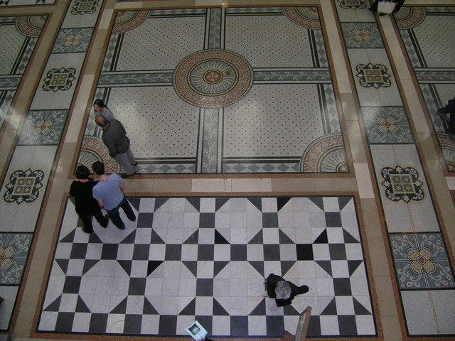 Royal Courts of Justice, 2004:09:18 13:20:12, Shermozle